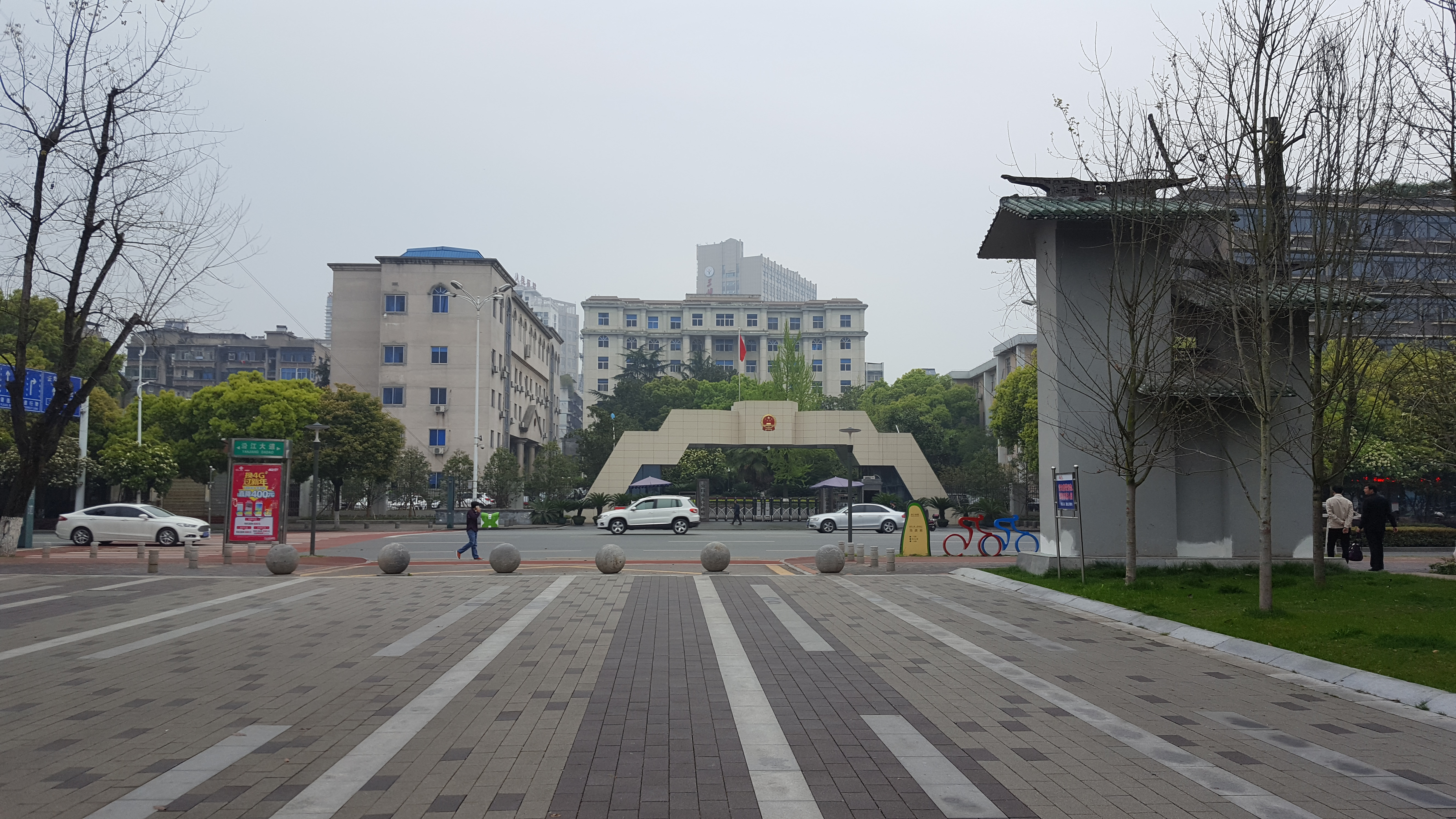 yichang government picture